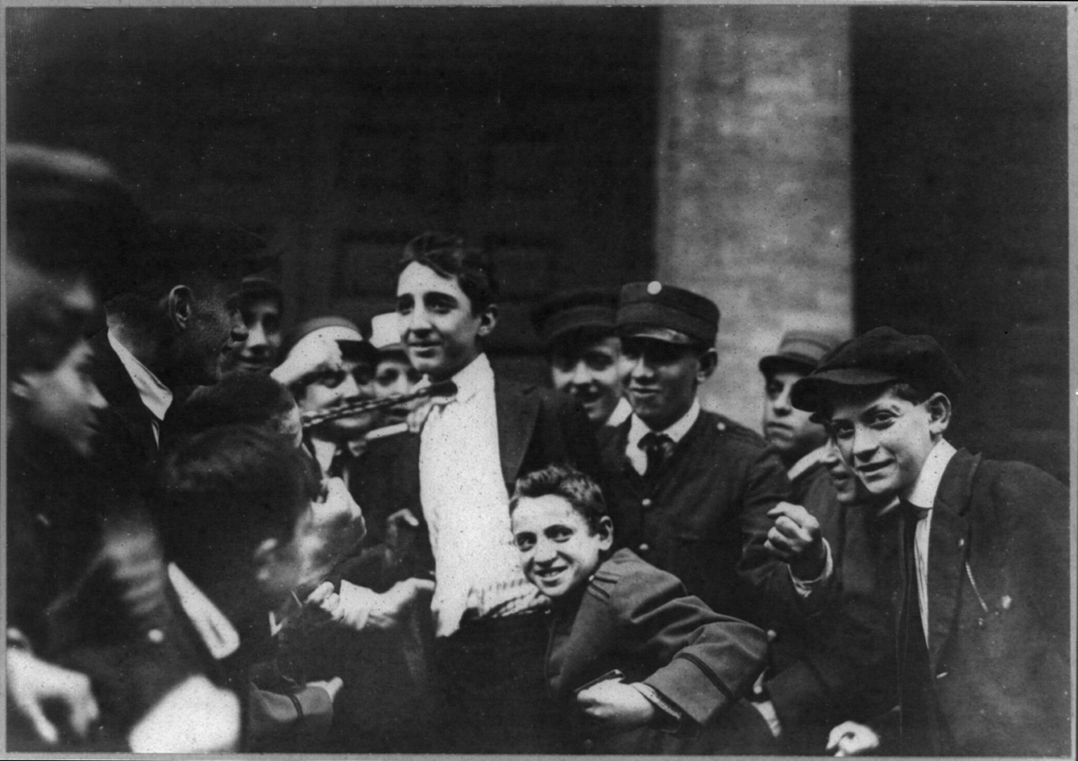 Title: Strikes - messenger boys, N.Y. - surrounding a scab Abstract/medium: 1 photographic print.